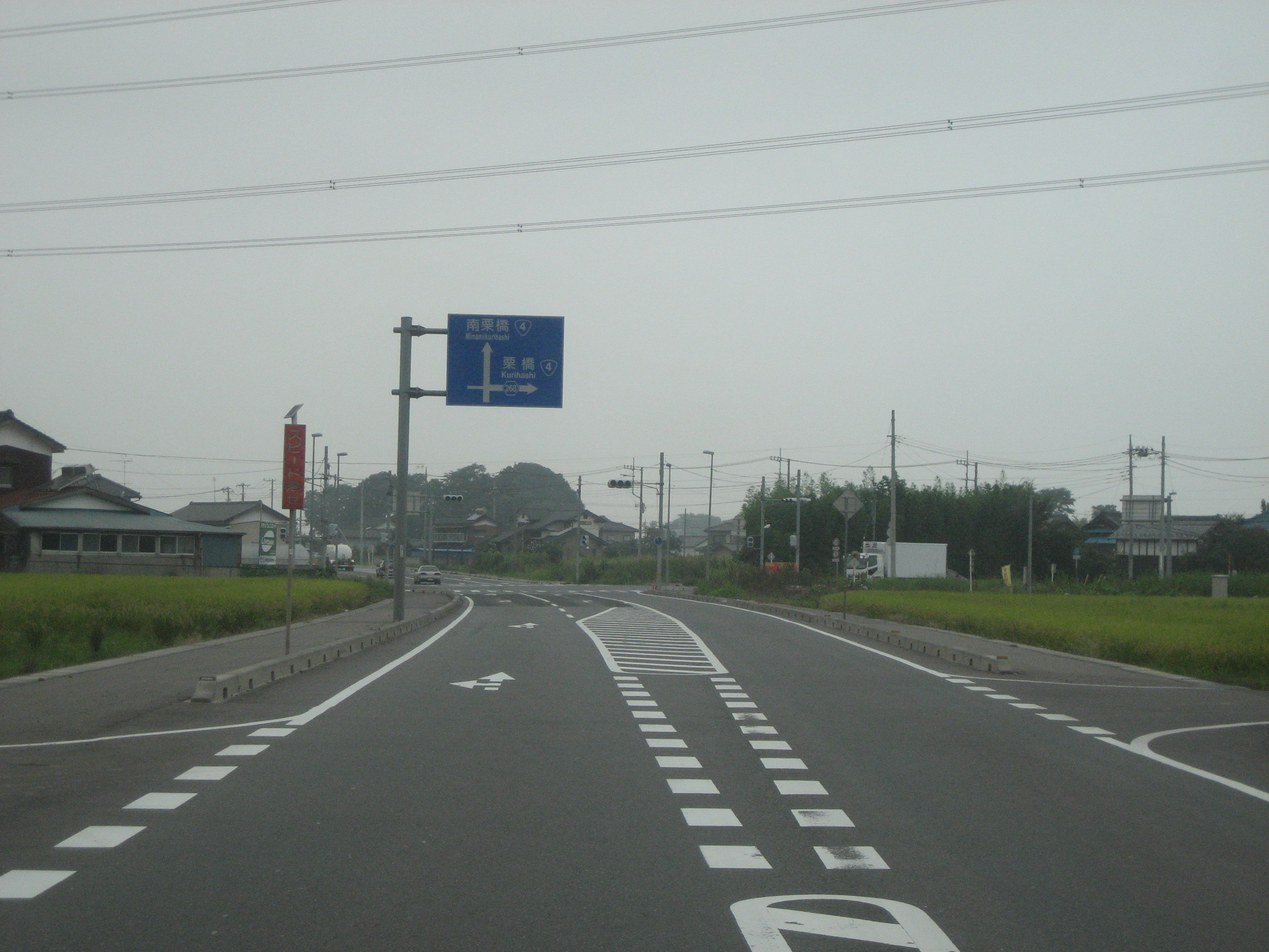 The Ibaraki Prefectural Road Route 268 in Goka Town